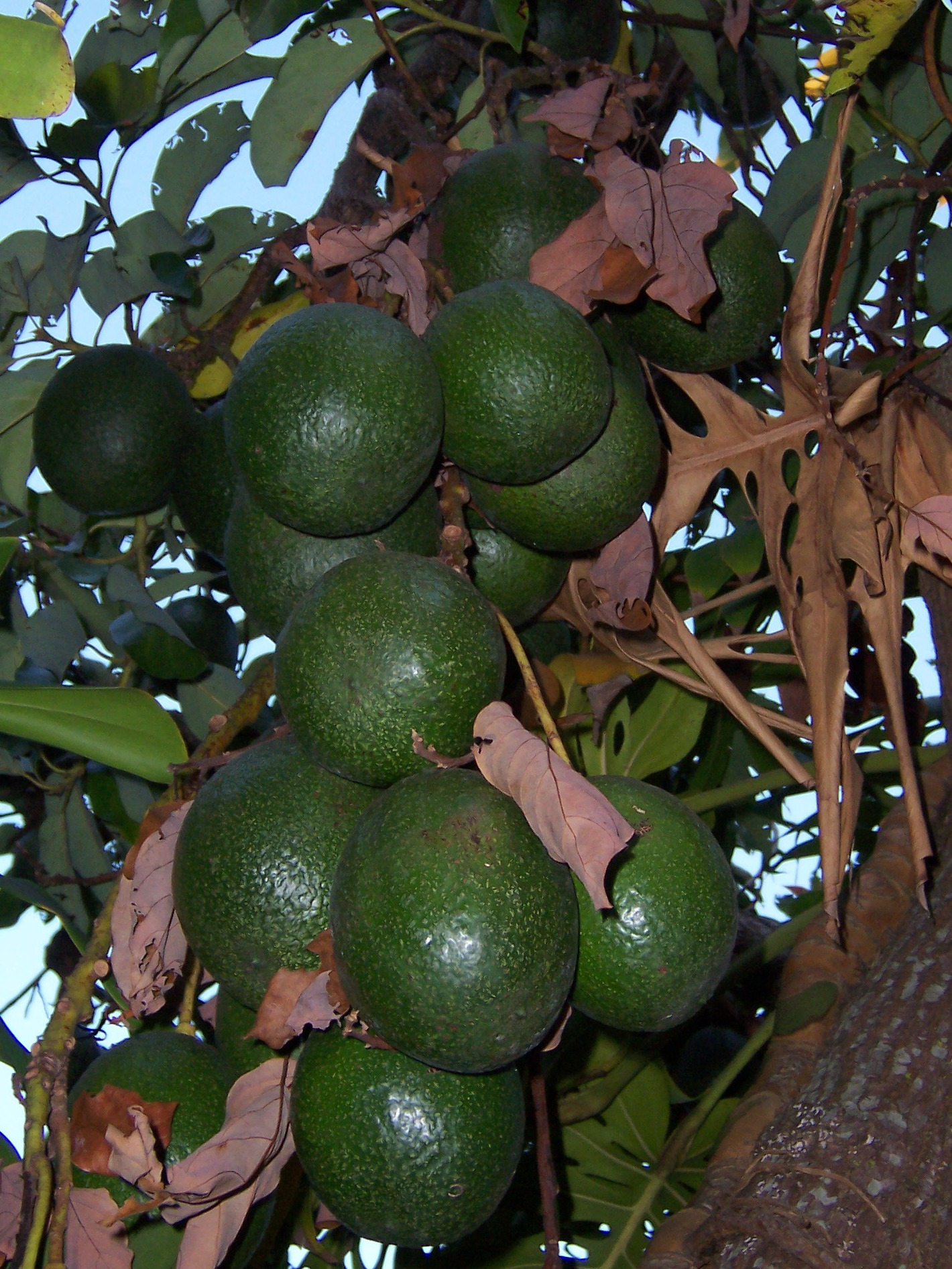 a handsome grape of avocados